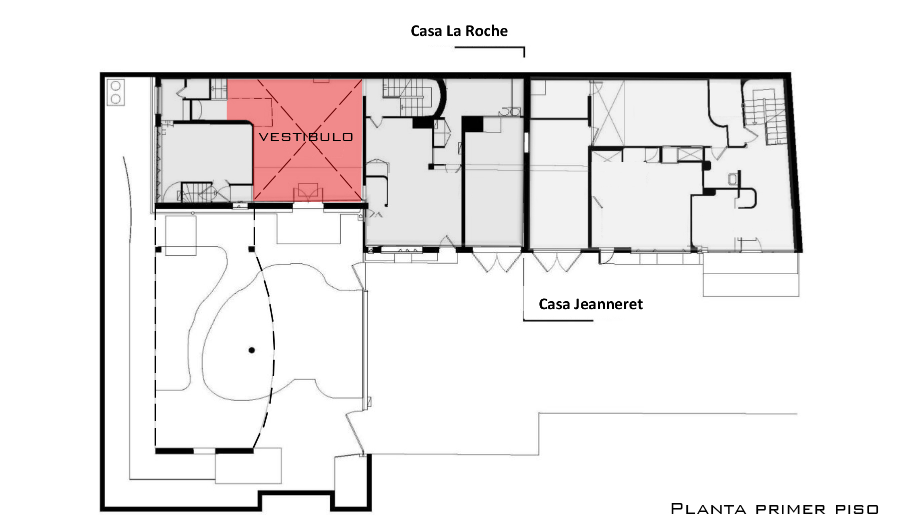 Planta Vestibulo